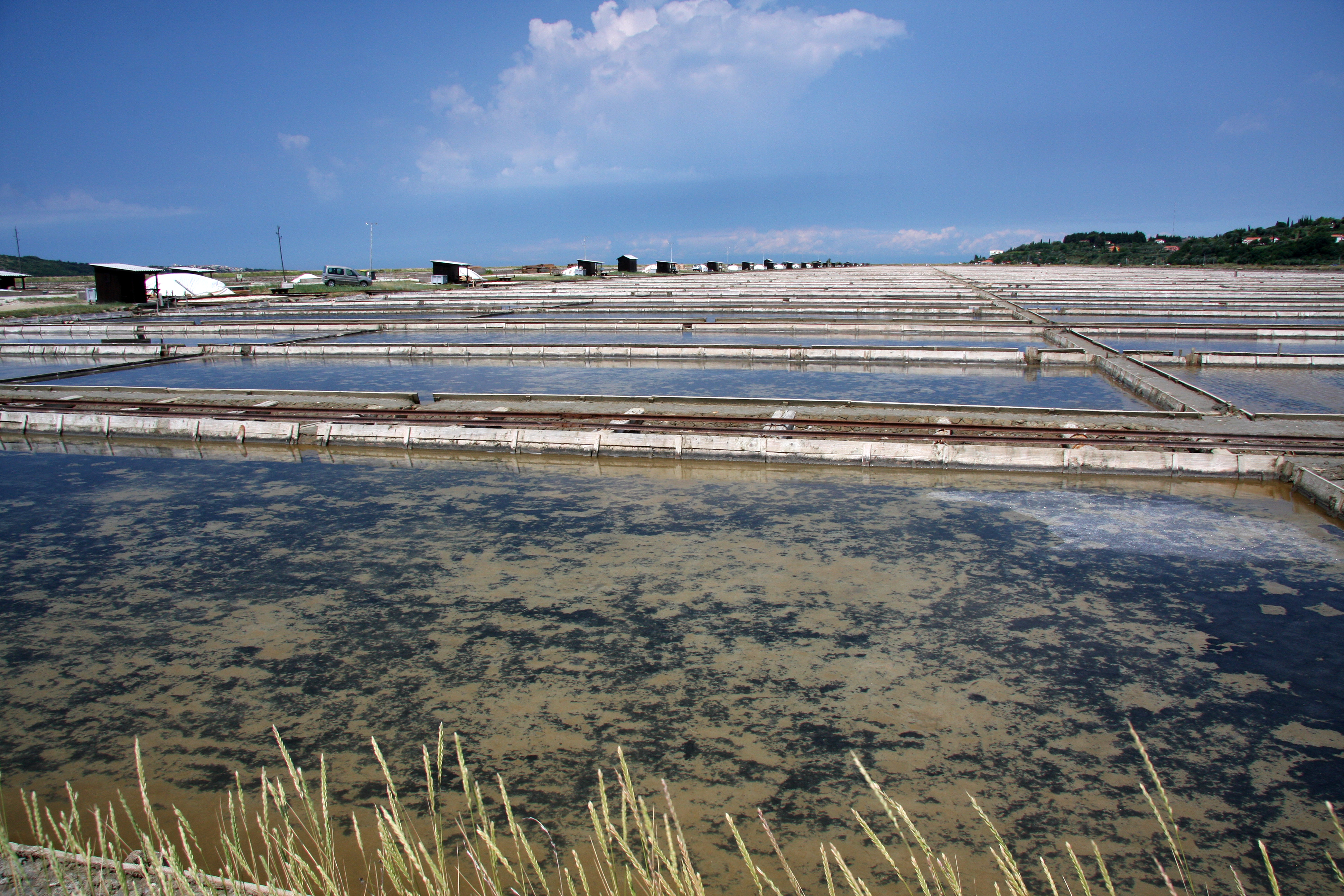 Salt evaporation ponds in Lera, active part of Sečovlje Salina.